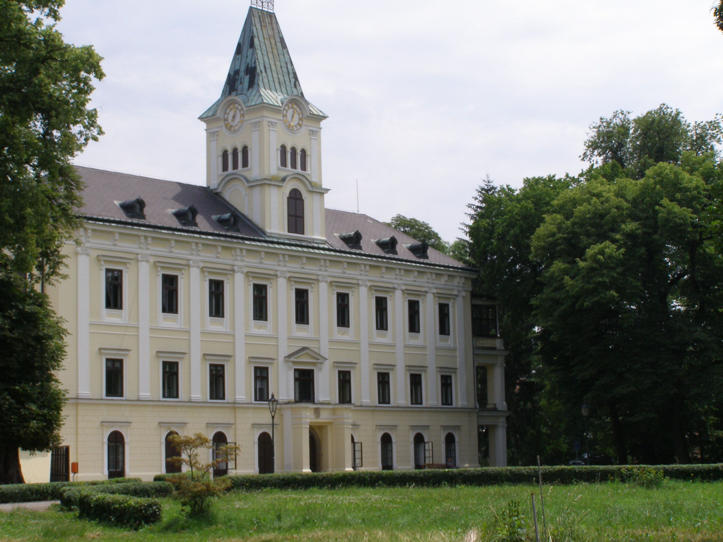 Kvasice castle